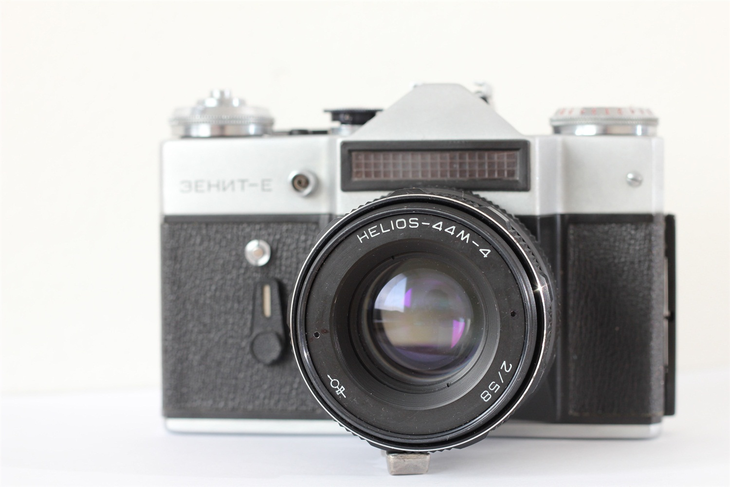 Zenit-E